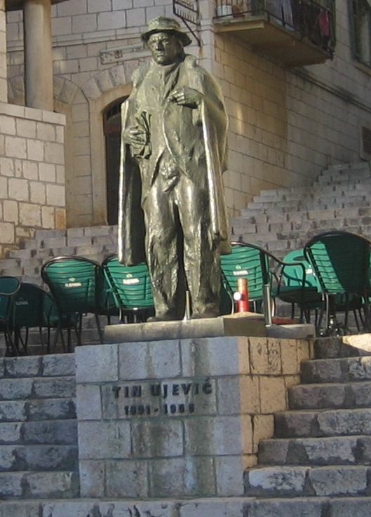 Tin Ujević monument in Imotski, Croatia